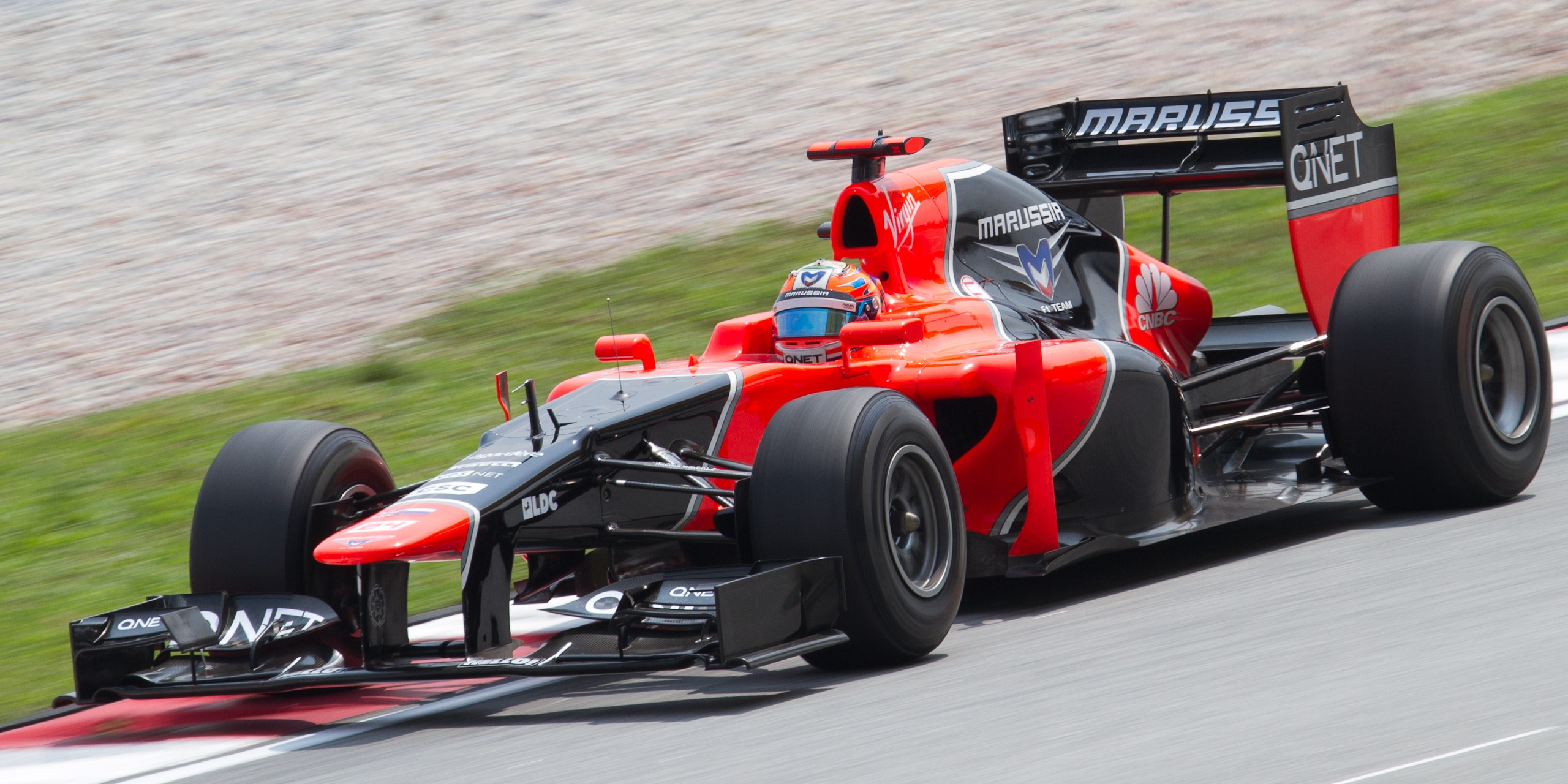 Formula One 2012 Rd.2 Malaysian GP: Timo Glock (Marussia) during the first practice session on Friday.